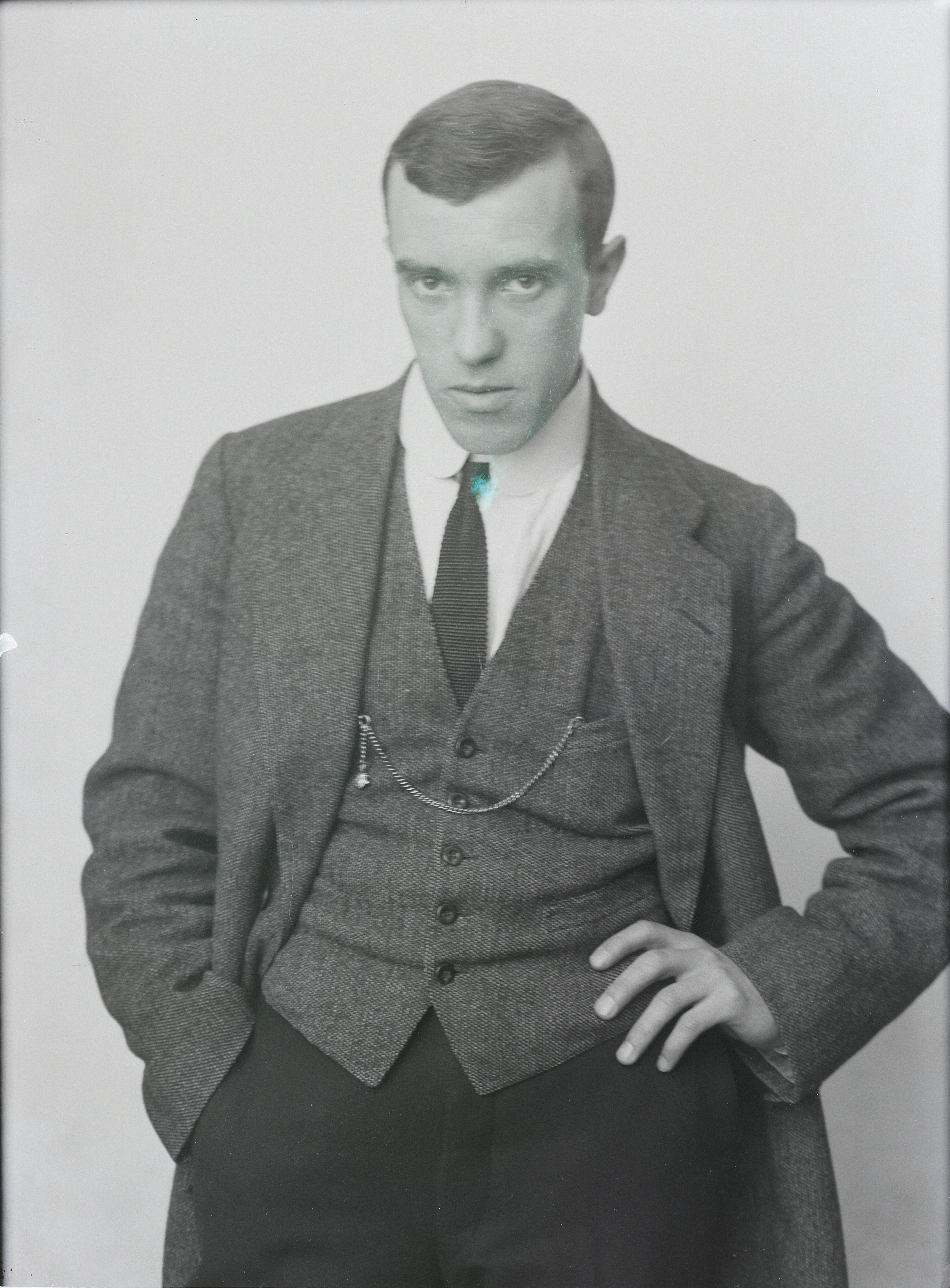 Photo of Konrad Mägi (1878–1925), Estonian painter. Unknown photographer, taken somewhere between 1898 and 1908. Published before 1923.